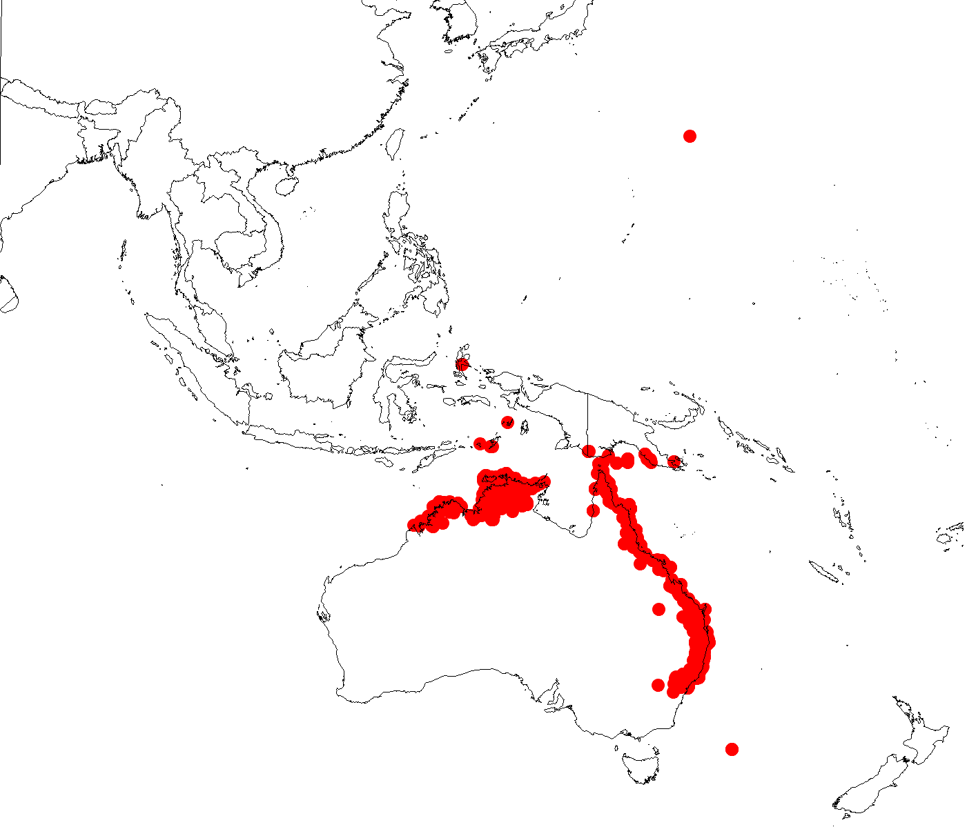 Parsonsia velutina Occurrence data downloaded from (21 December 2018) GBIF Occurrence Download